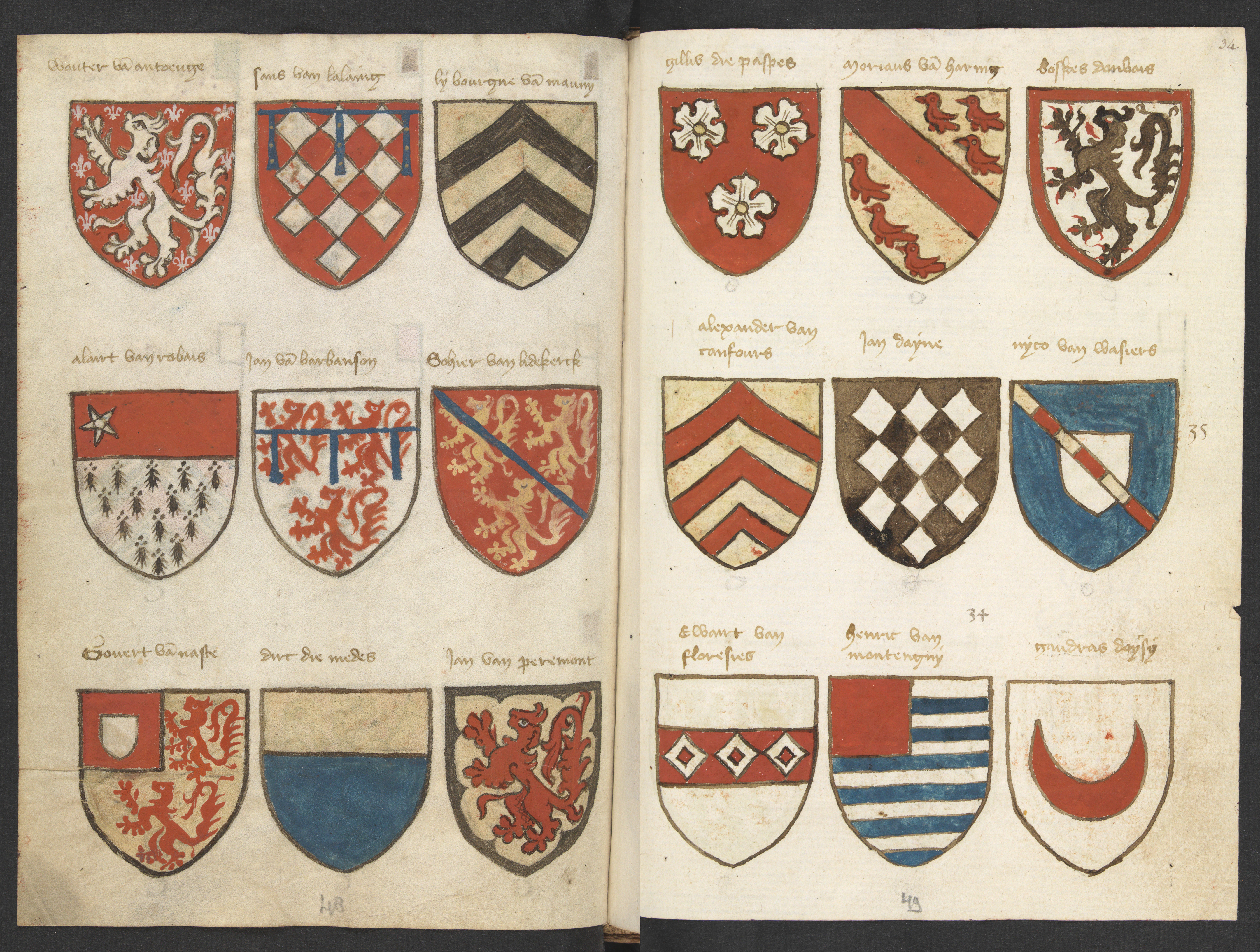 Lefthand side folio 033v; righthand side folio 034r from the Beyeren armorial / Wapenboek Beyeren